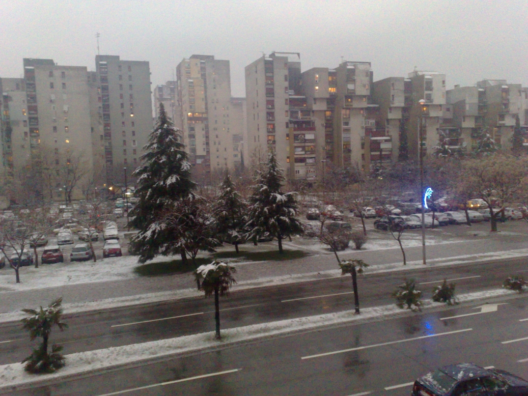 blok 5